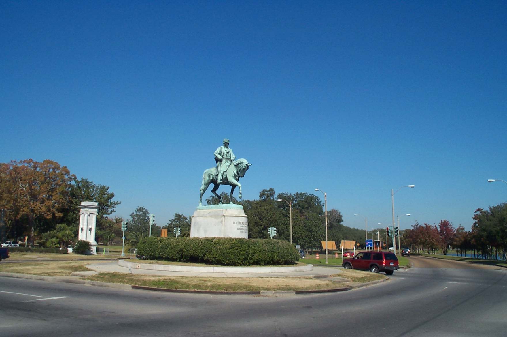 New Orleans Equestrial statue of P.G.T. Beauregard by Alexander Doyle at the intersection of Esplanade Avenue and Carrollton Avenue, in front of the entrance to New Orleans City Park and the New Orleans Museum of Art.